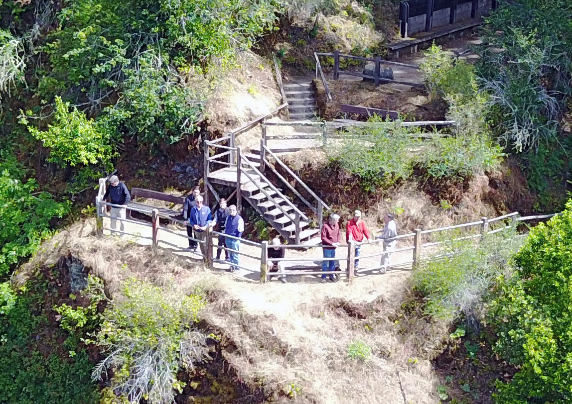 Bohemian Grove Members During Spring Jinx Encampment